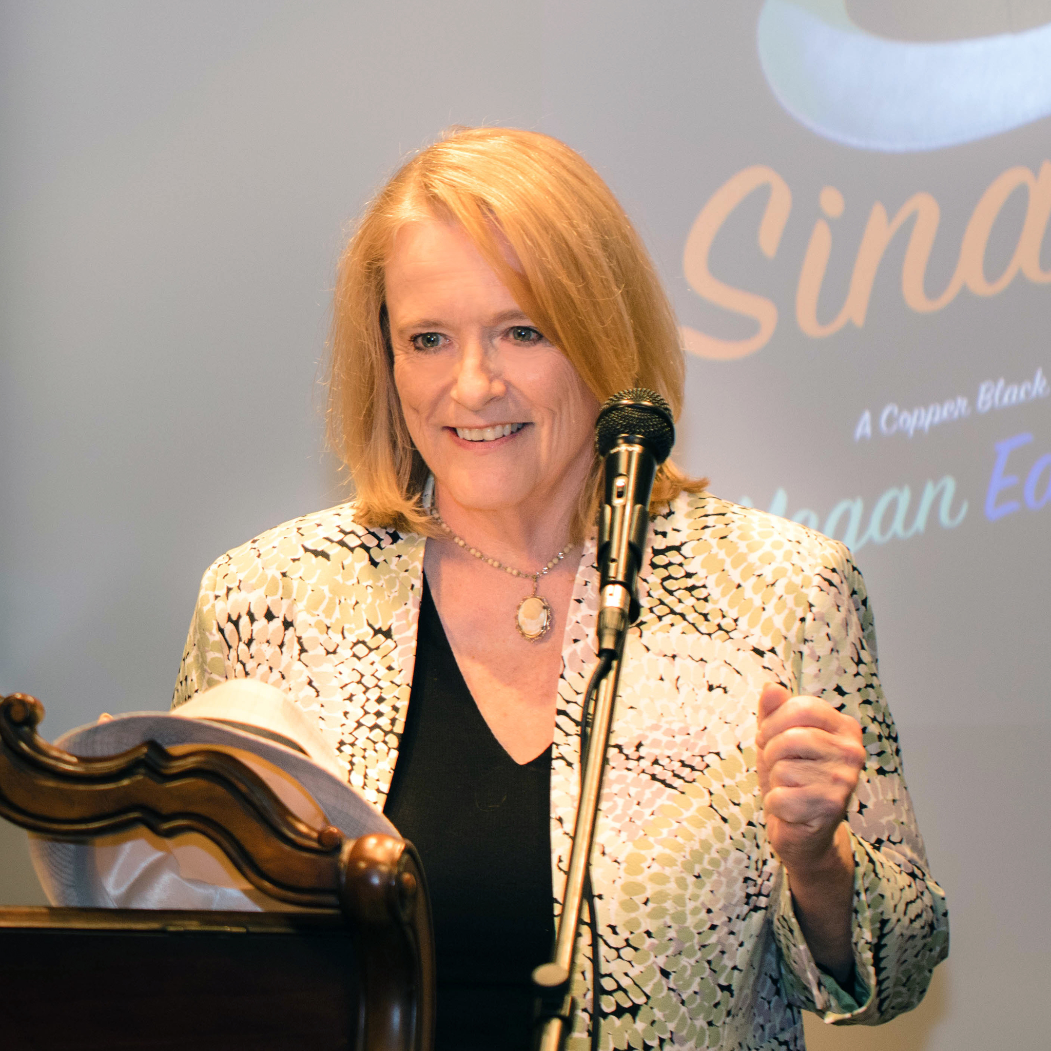 Author Megan Edwards